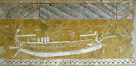 An image of ship on the wall of a temple in Nymphaion, 3rd century BC (now in the Hermitage Museum).